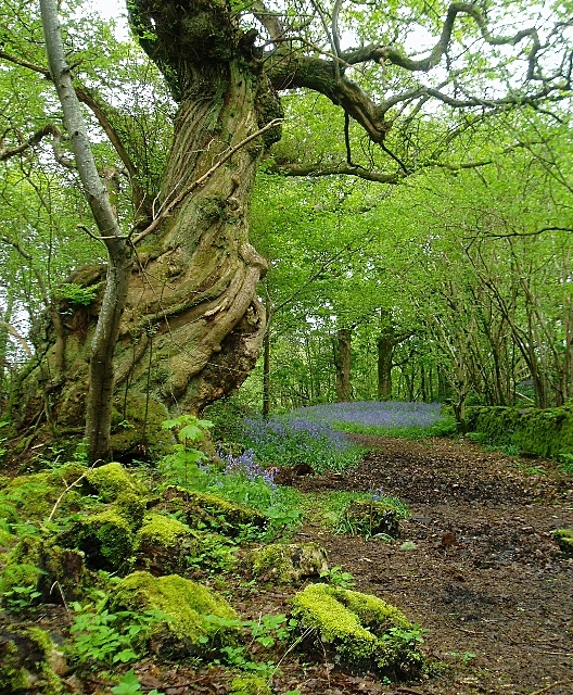 Ancient woodland on the island of Inchmahone, Lake of Menteith, Scotland